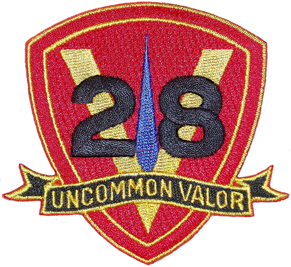 The insignia of the United States Marine Corps 28th Marines.